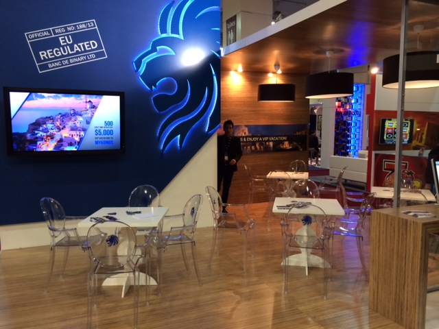 Banc De Binary in the London Affiliate Conference 2013